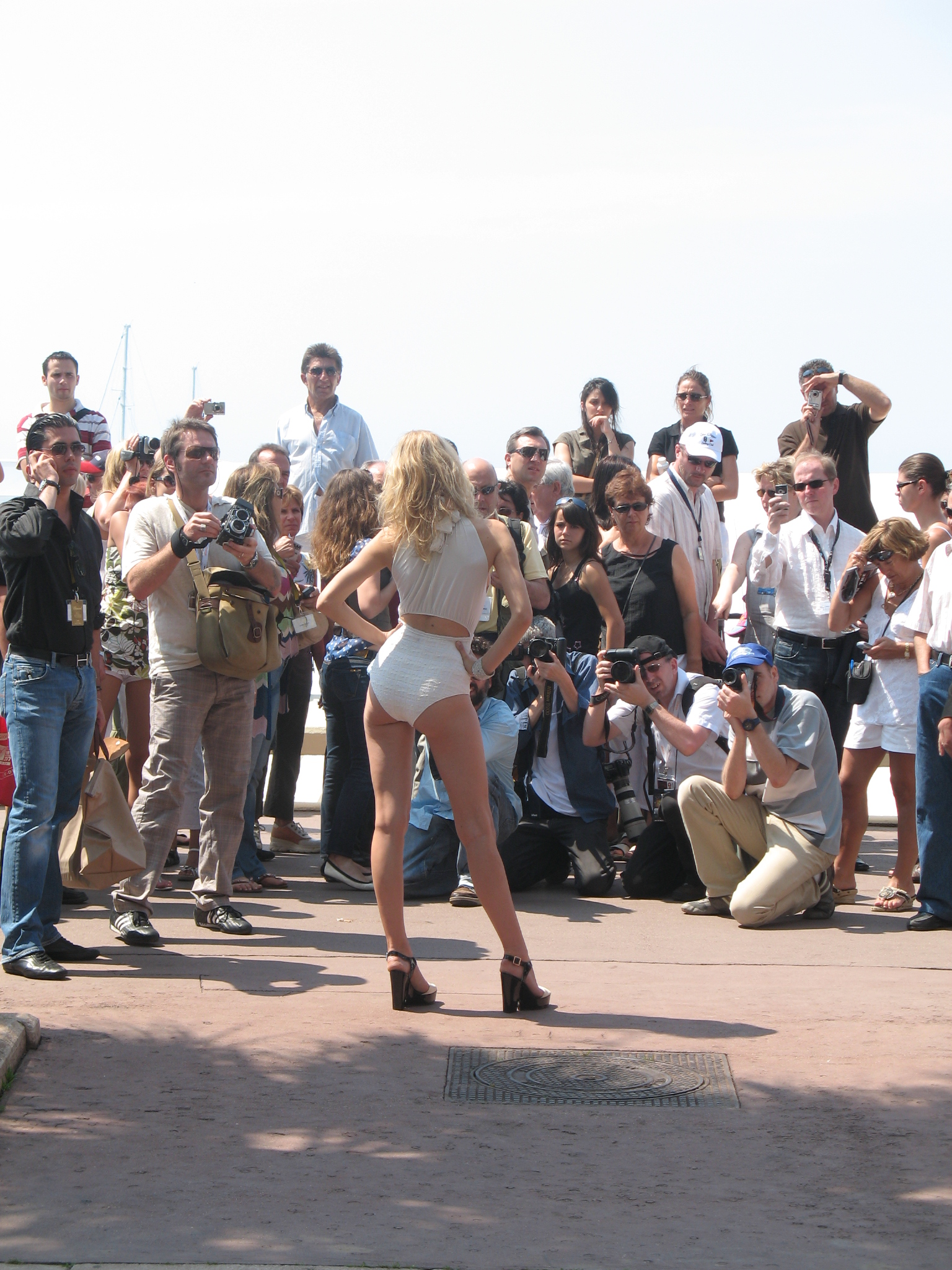 Model with photographers during the 2007 Cannes Film Festival